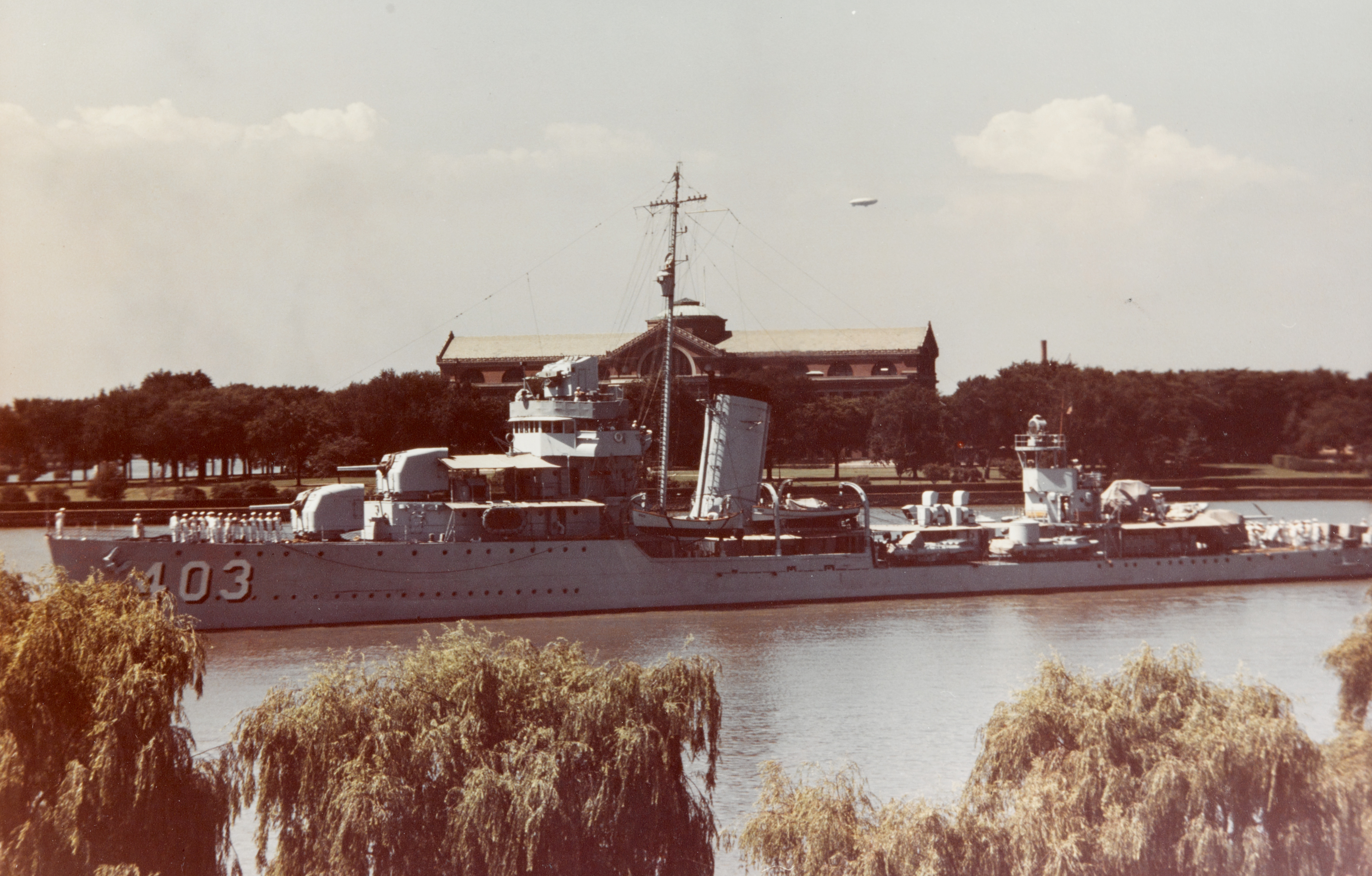 The U.S. Navy destroyer USS Trippe (DD-403) steaming down the Anacostia River, off Washington, D.C. (USA), on 18 July 1940, after visiting the Washington Navy Yard. The Army War College is in the background, with a blimp overhead.